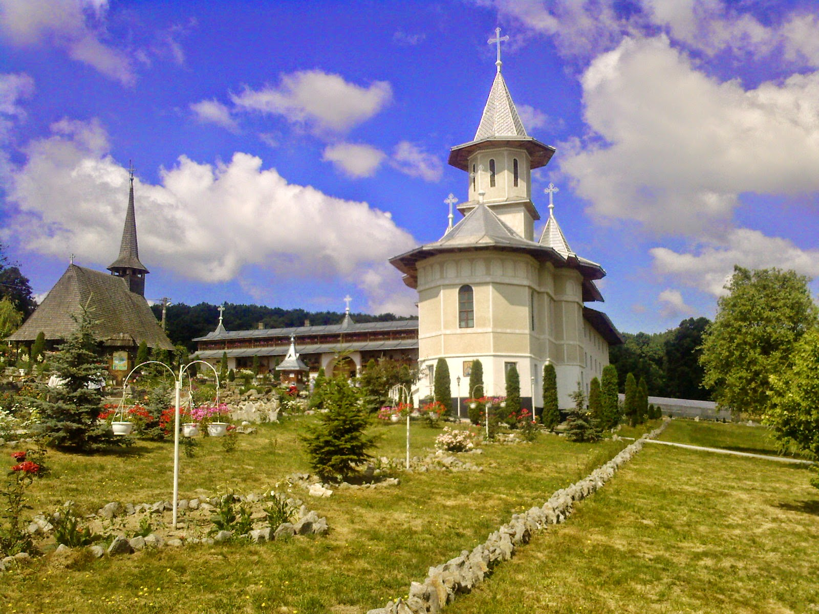 Monastery Bic, Salaj County, Romania